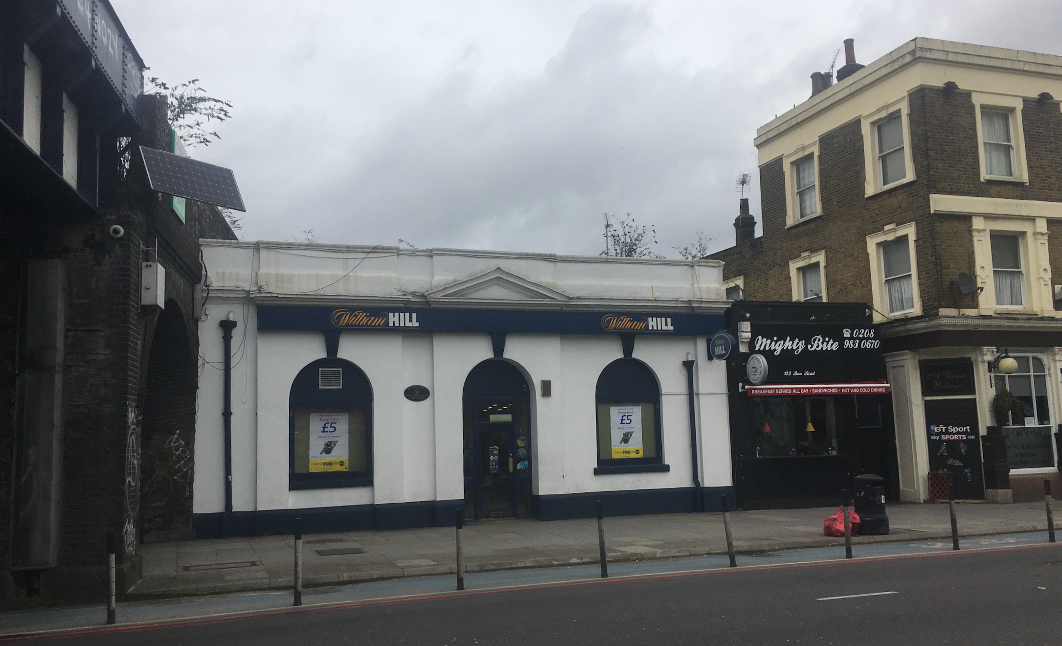 The disused Bow Road railway station, now a bookmakers, in 2020.